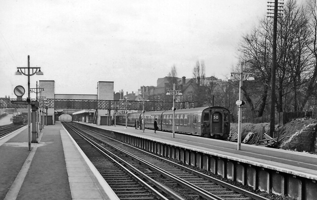 Bromley South Station. View westward, towards London (Victoria and Holborn Viaduct stations). Important suburban station on Chatham and Kent Coast main line of former South Eastern & Chatham Railway. Most trains run from Victoria. Holborn Viaduct services ceased in January 1990 and have since run from Blackfriars station.